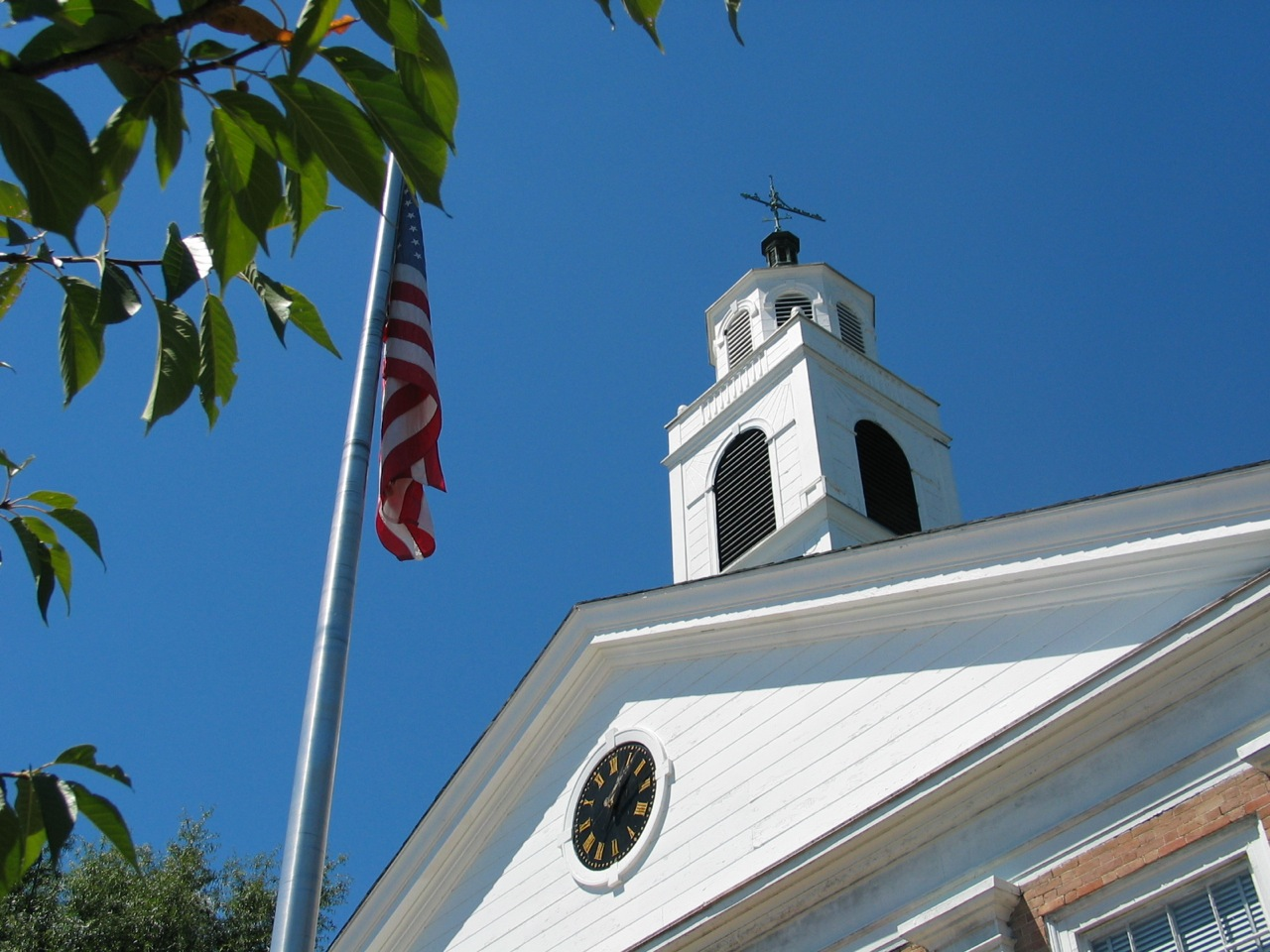 Essex County Courthouse, Tappahannock, Virginia